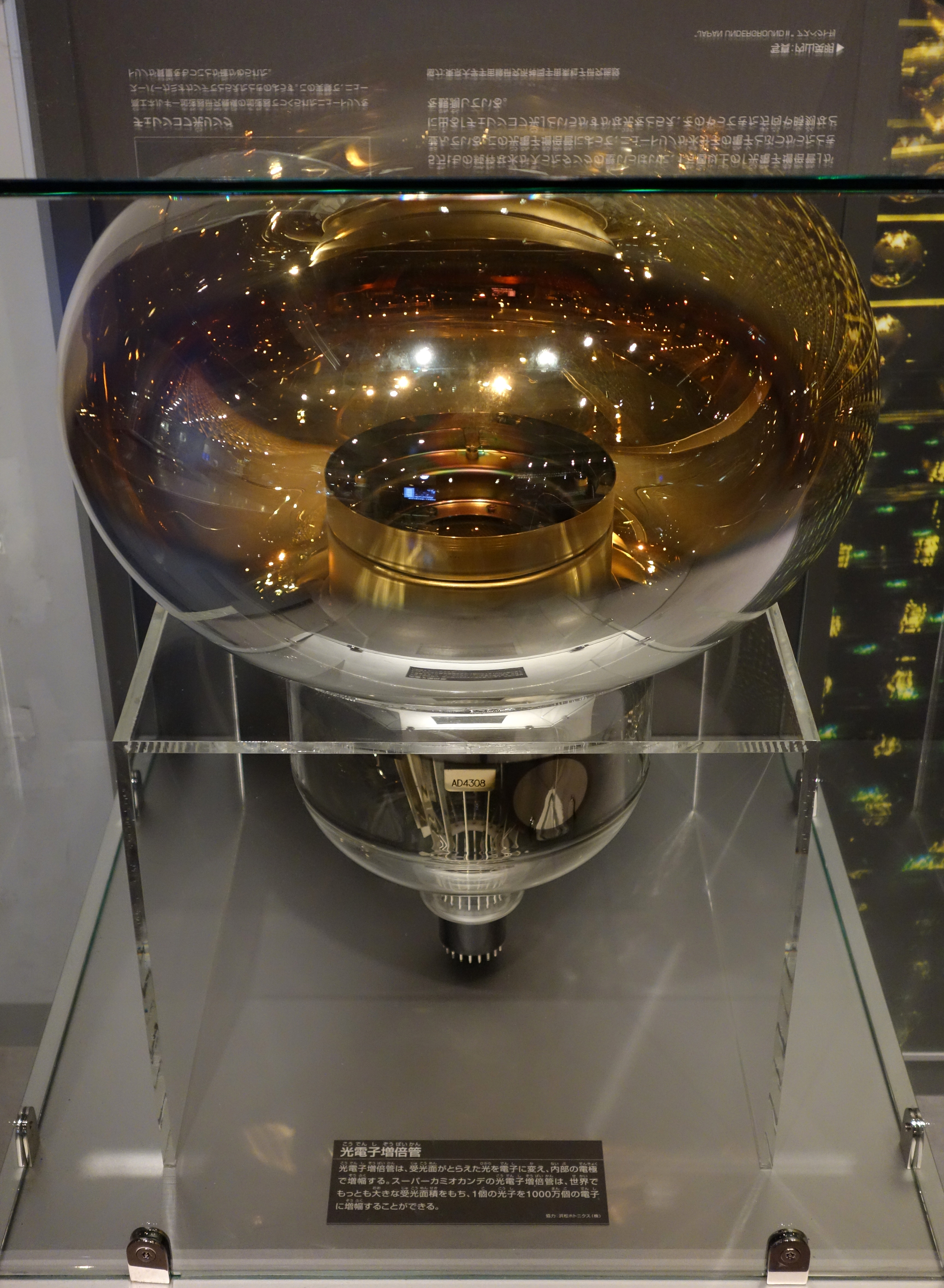 Exhibit in the National Museum of Nature and Science, Tokyo, Japan.